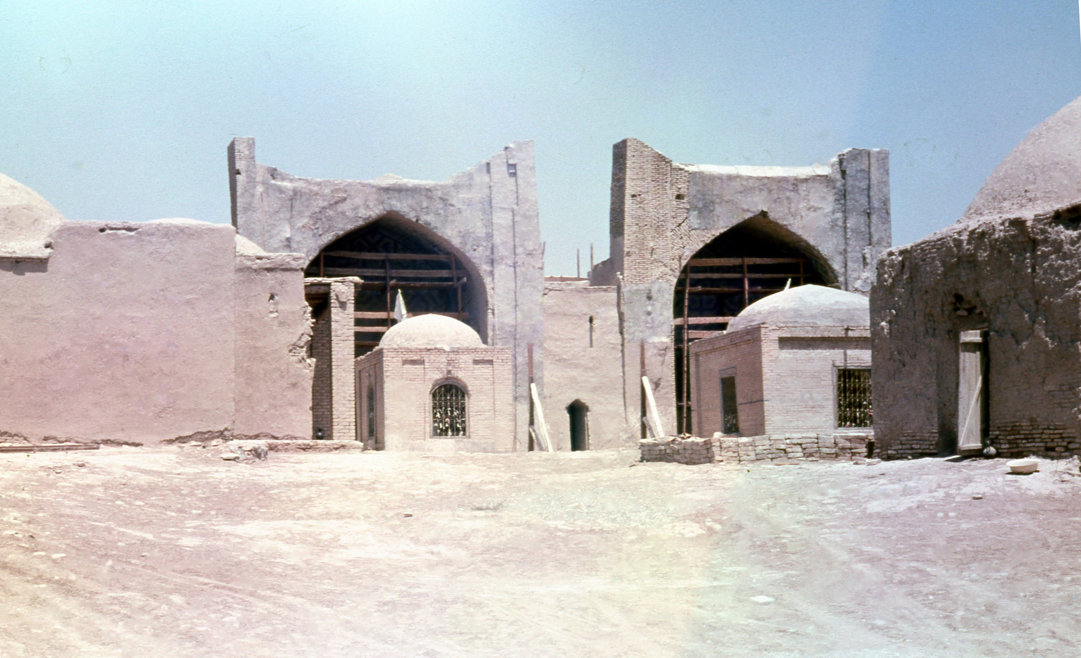 Merv. Eshabs